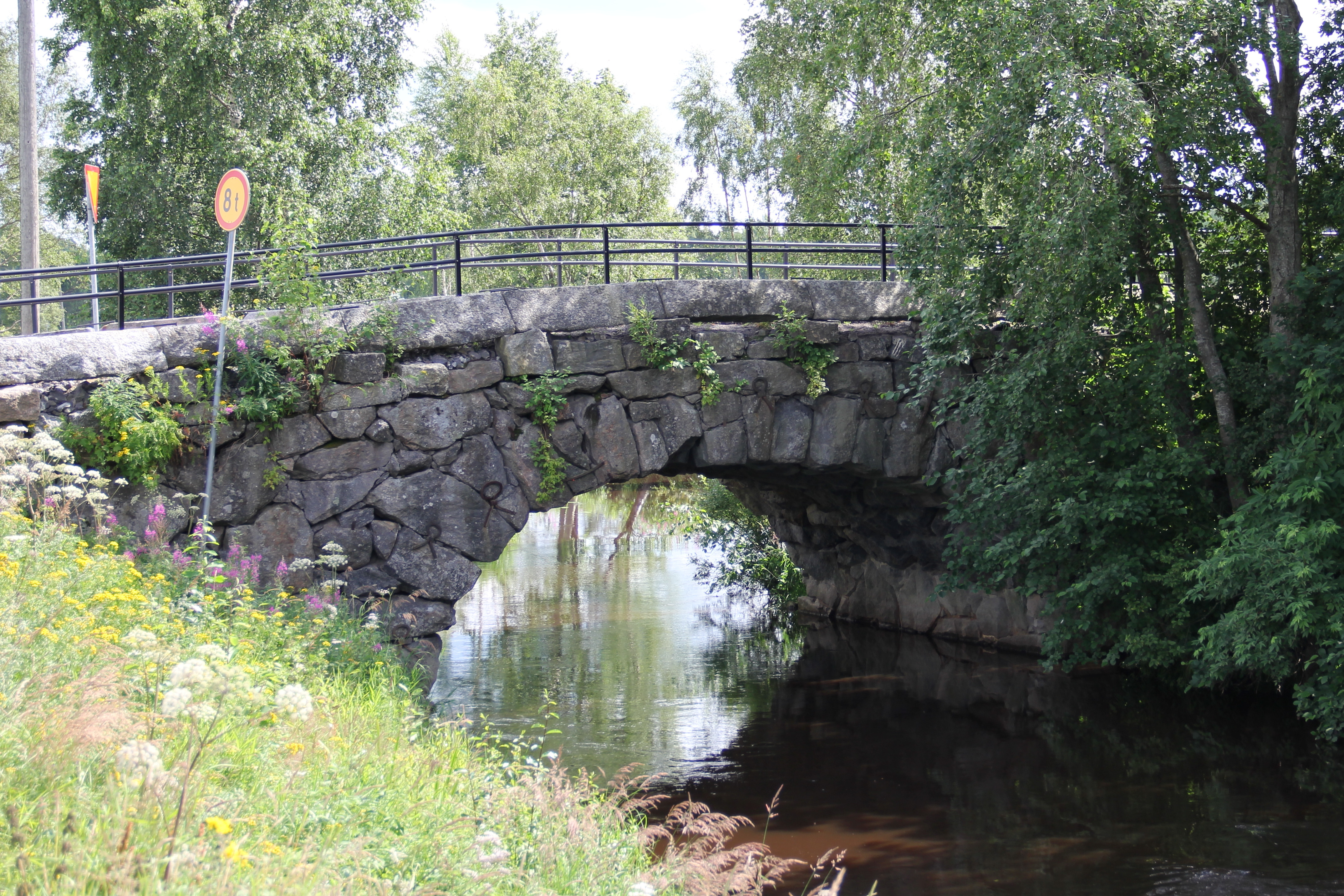 Tuovila bridge, Mustasaari, Finland. - Northern bridge.